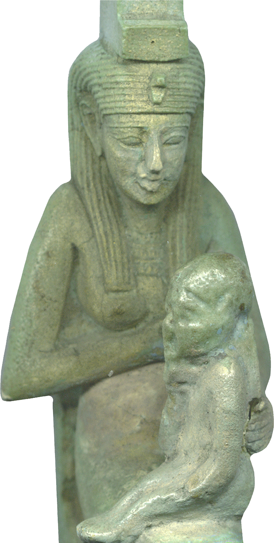 Isis was a goddess of kingship and magical power. Images of her as a nursing mother were believed to protect women and children.